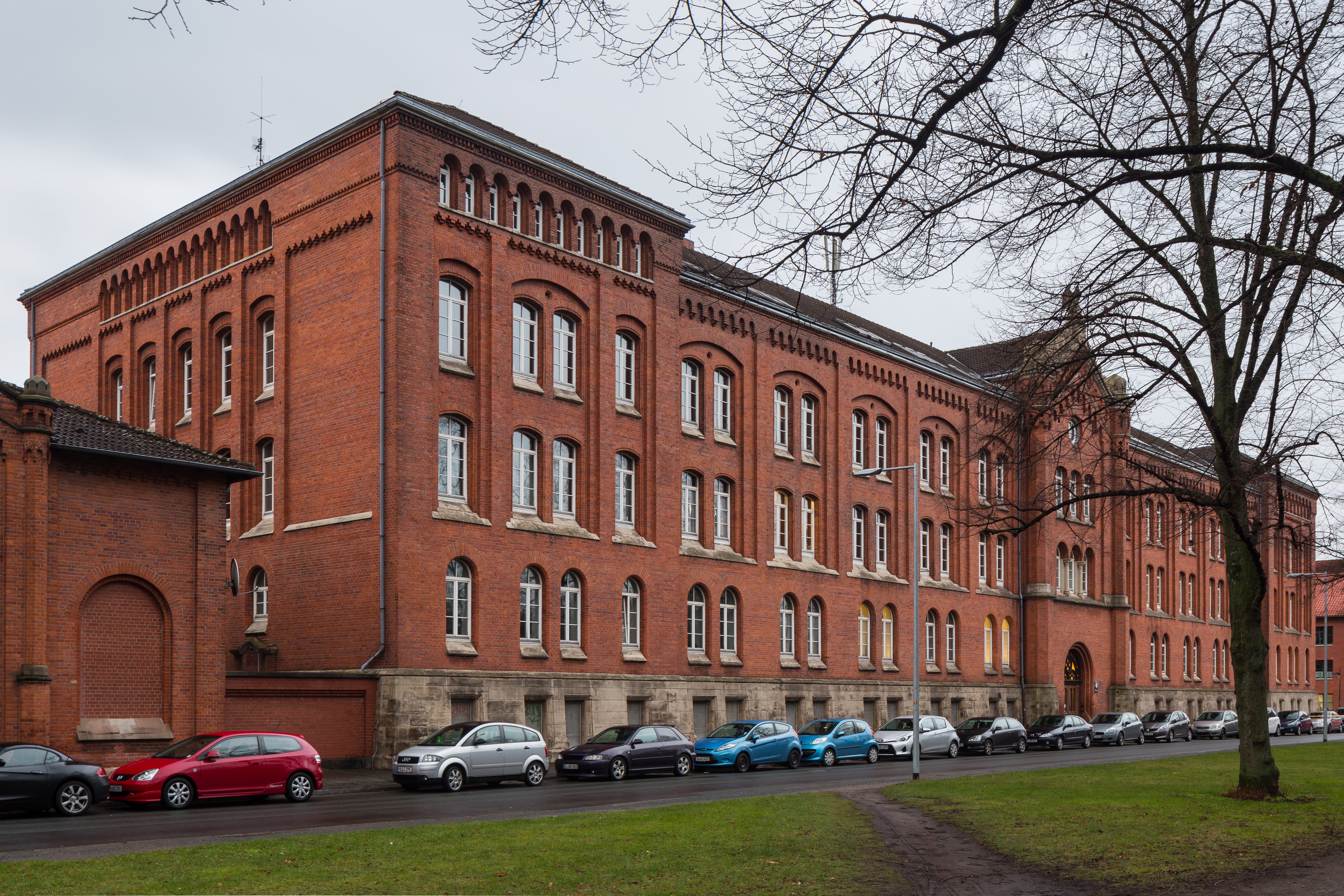 Former riding artillery barracks located at Welfenplatz square no. 1 in List district of Hannover, Germany. Today, the building is used by the police department.